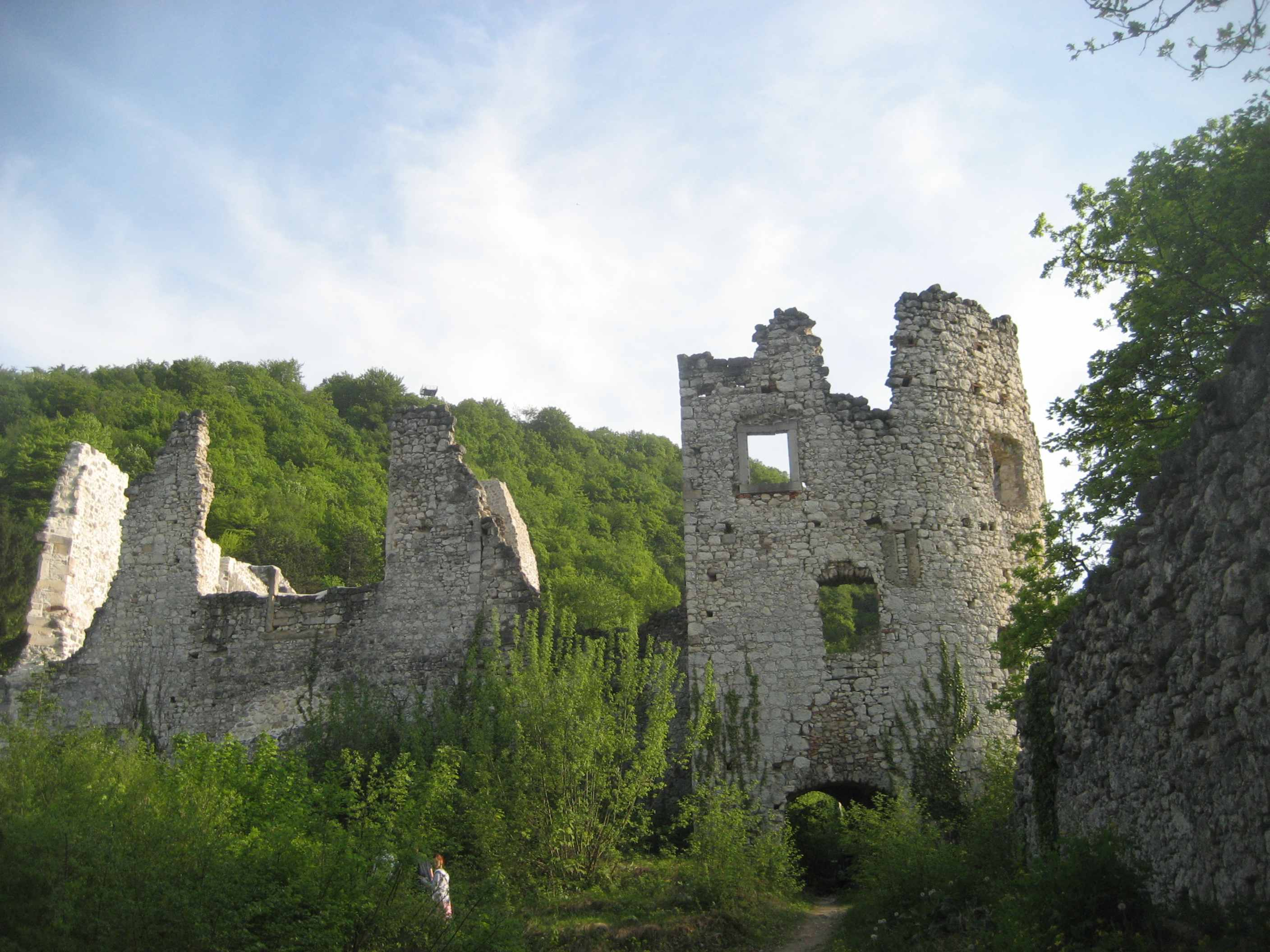 Ruin Samobor Castle